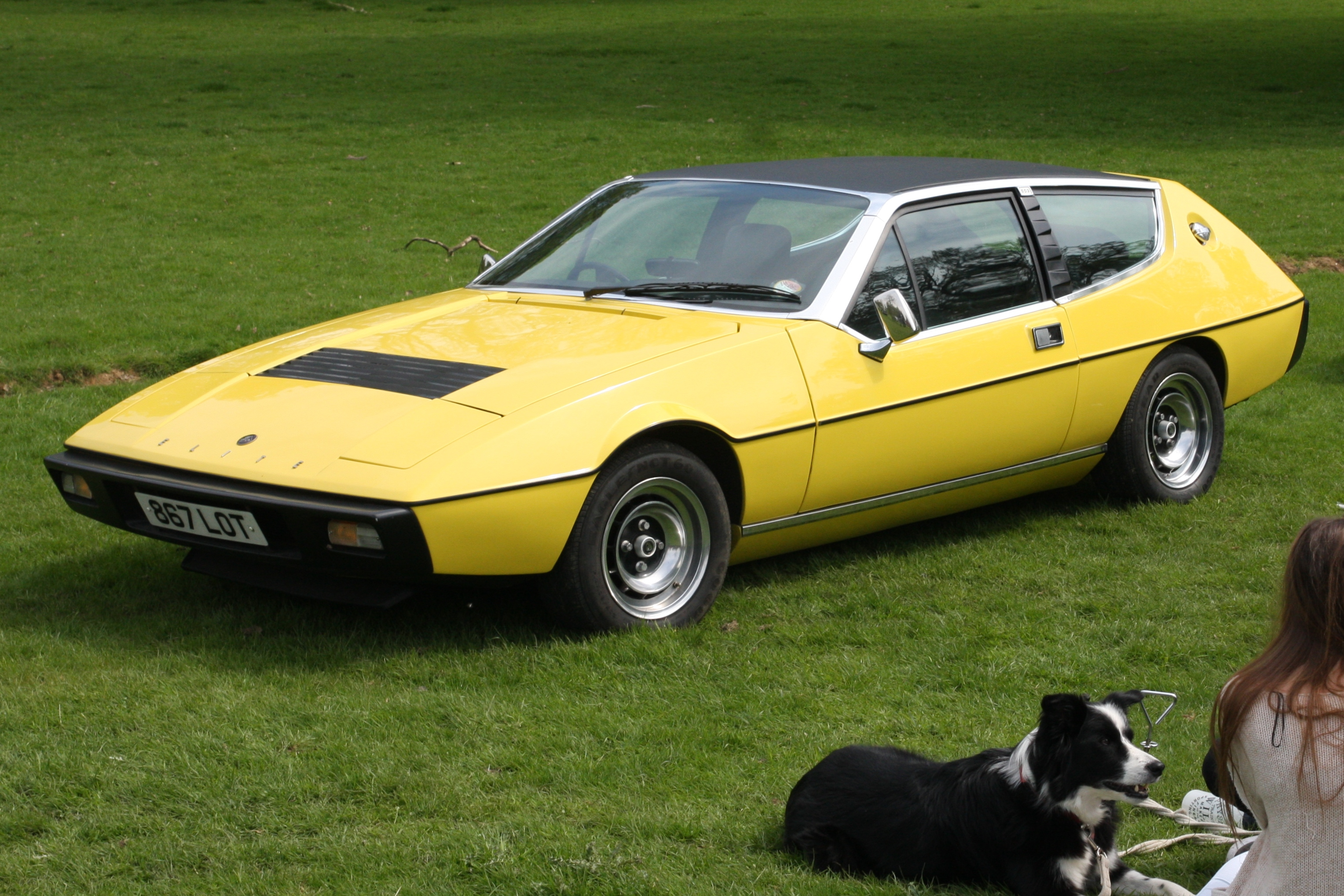 Lotus Elite (1975)